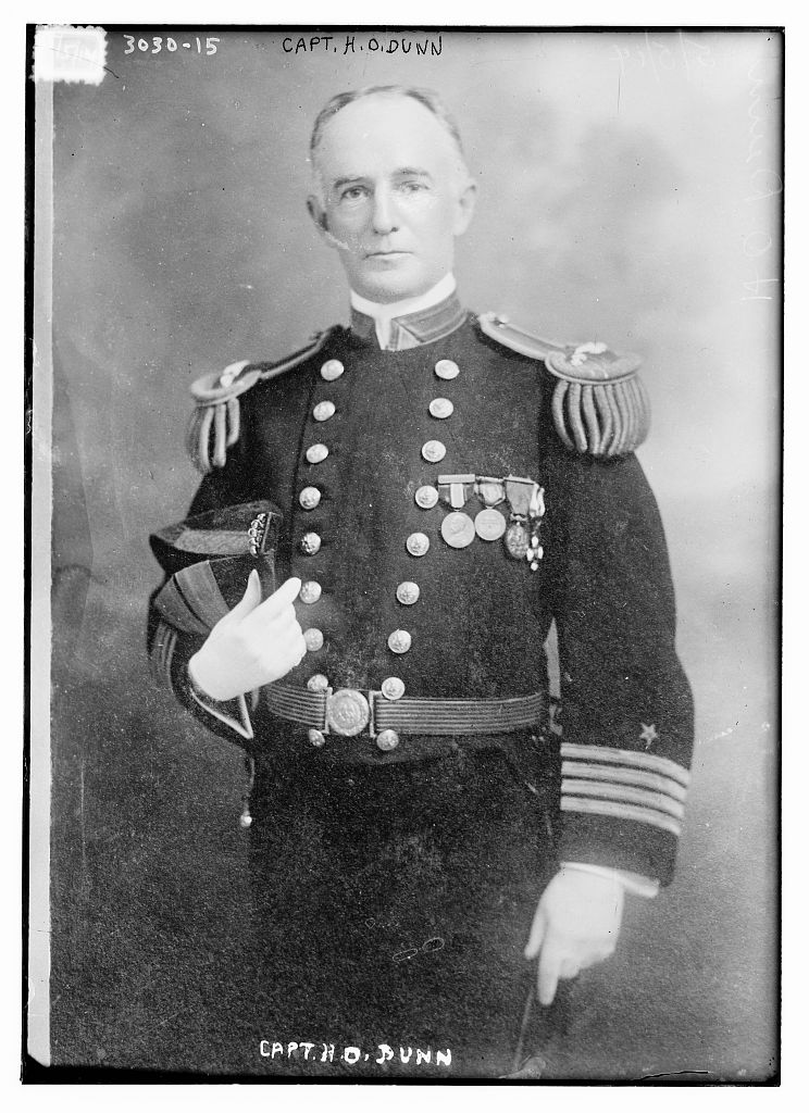 Bain News Service,, publisher. Capt. H. O. Dunn [between ca. 1910 and ca. 1915] 1 negative : glass ; 5 x 7 in. or smaller. Notes: Title from unverified data provided by the Bain News Service on the negatives or caption cards. Forms part of: George Grantham Bain Collection (Library of Congress). Format: Glass negatives. Repository: Library of Congress, Prints and Photographs Division, Washington, D.C. 20540 USA, General information about the Bain Collection is available at Persistent URL: Call Number: LC-B2- 3030-15